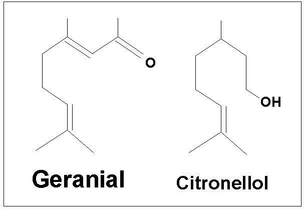 chemical components present in citronella oil